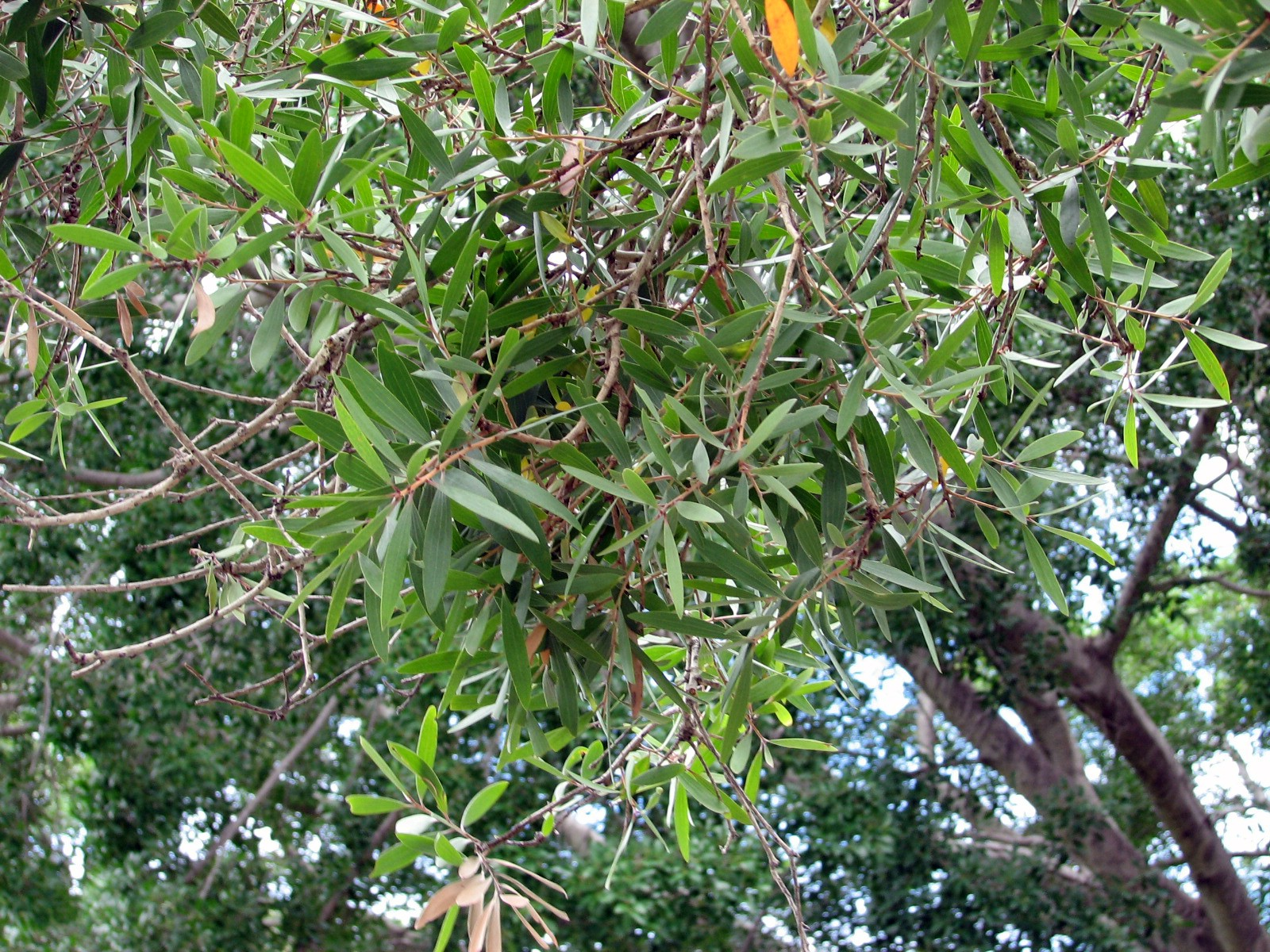 Melaleuca leucadendra foliage at the Royal Botanic Gardens, Sydney. Planted by Queen Elizabeth II in 1954.